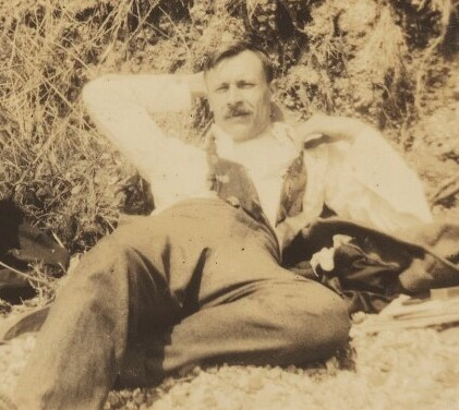 Snapshot of Sydney Saxon-Turner (Original included Lytton Strachey)